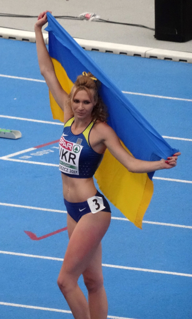 2017 European Athletics U23 Championships in Bydgoszcz Poland, 4x100m relay women final